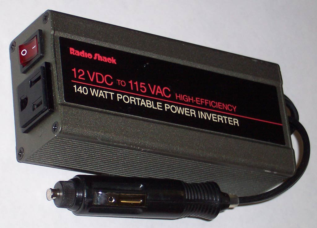 Radio Shack 12 VDC to 115 VAC 140 watt portable power inverter photographed by the contributor.